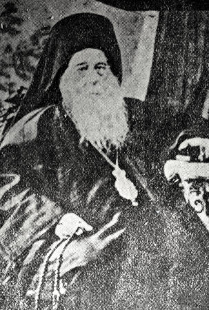 Paisios of Efesos